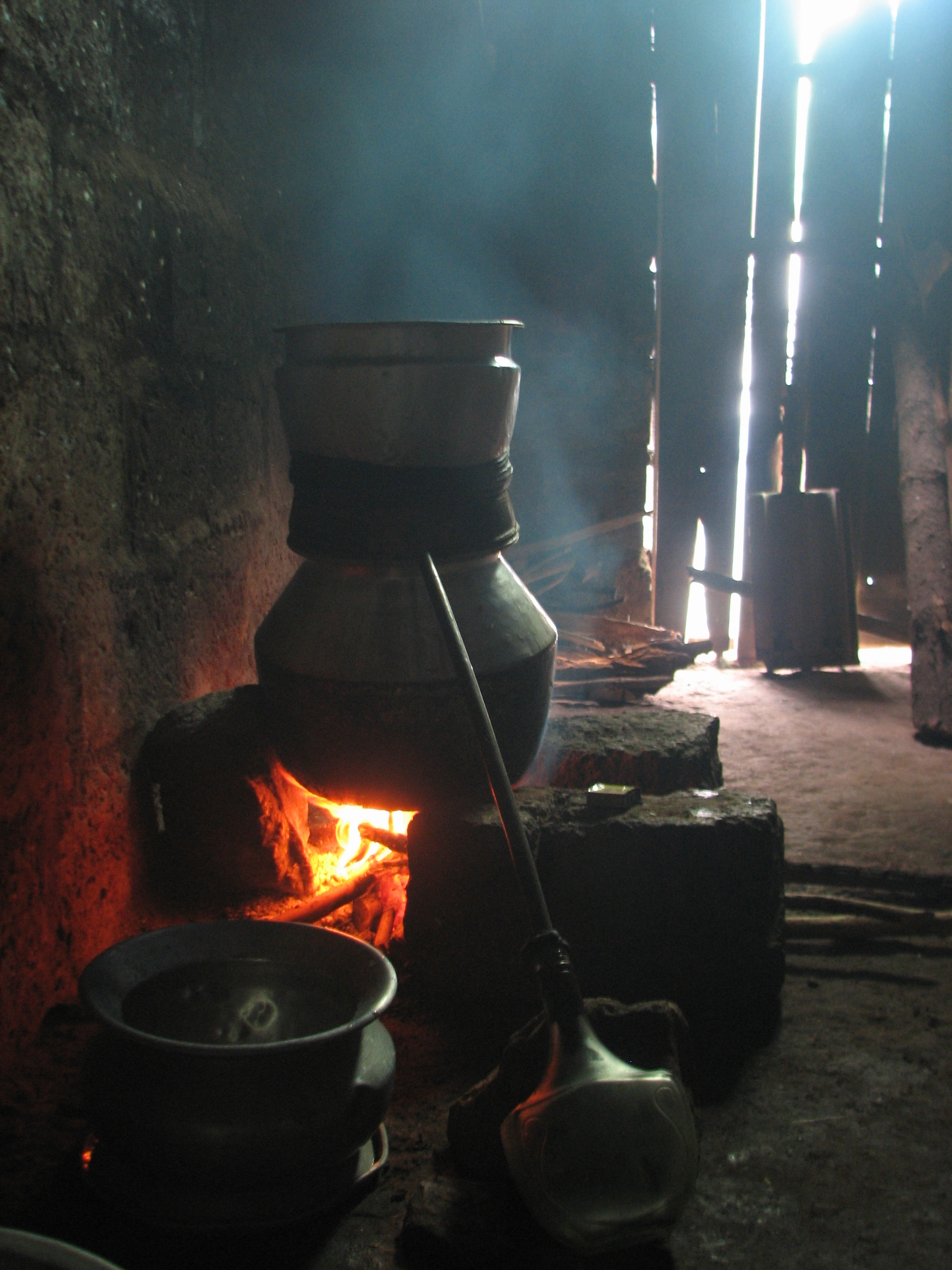 ( Someones only source of income ! Half a glass of hot spirit costs Rs 10/- and it smells and tastes like scotch. ) Image taken in Kerala. ജീവിതം ലഹരിയാകുമ്പോള്‍, അല്ലെങ്കില്‍ ലഹരി ജീവിതമാകുമ്പോള്‍.